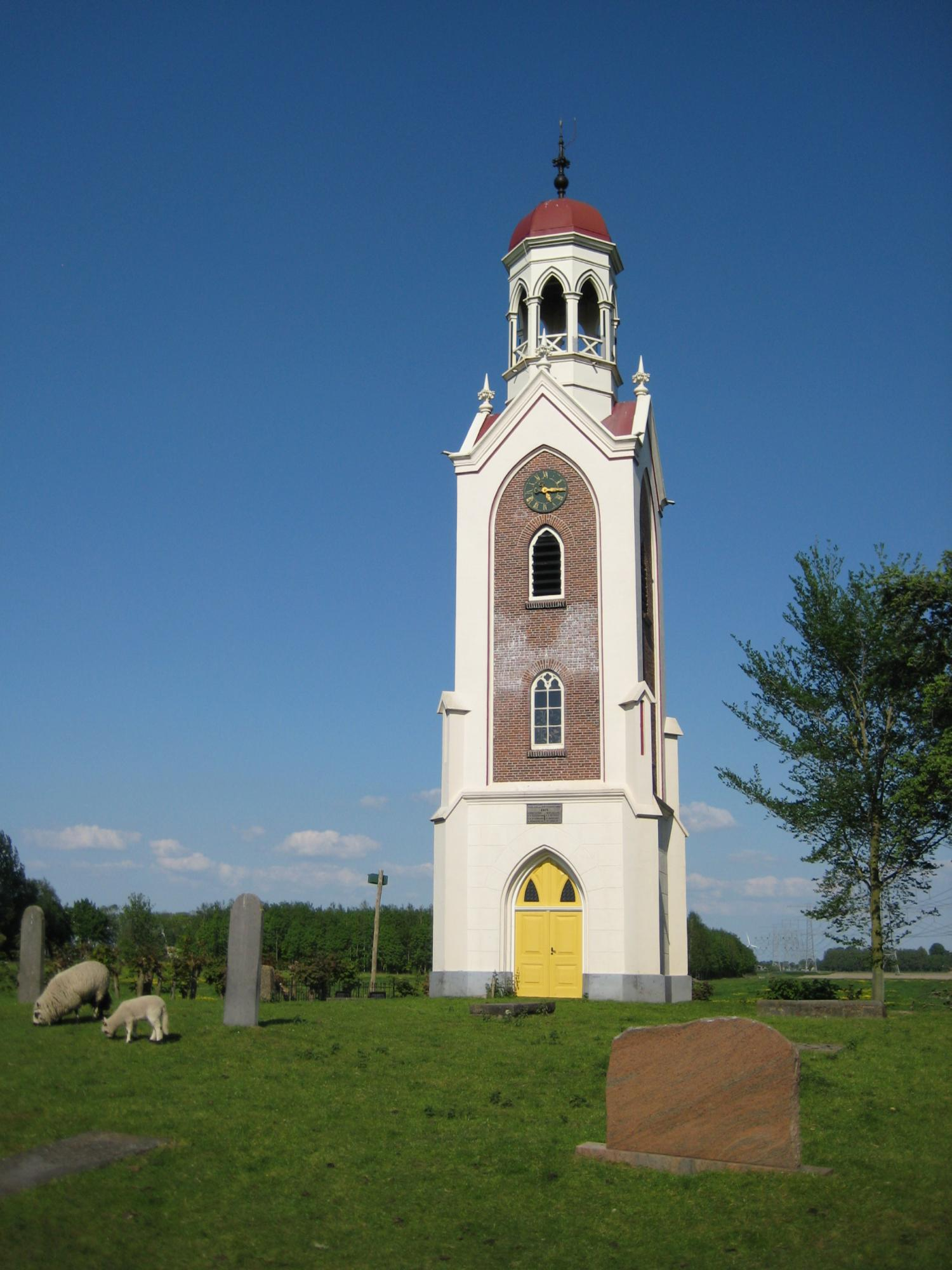 The church tower of Westerdijkhorn, a small village in the Dutch province of GroningenFrysk: De tsjerketoer fan Westerdijkshorn, Grinslân